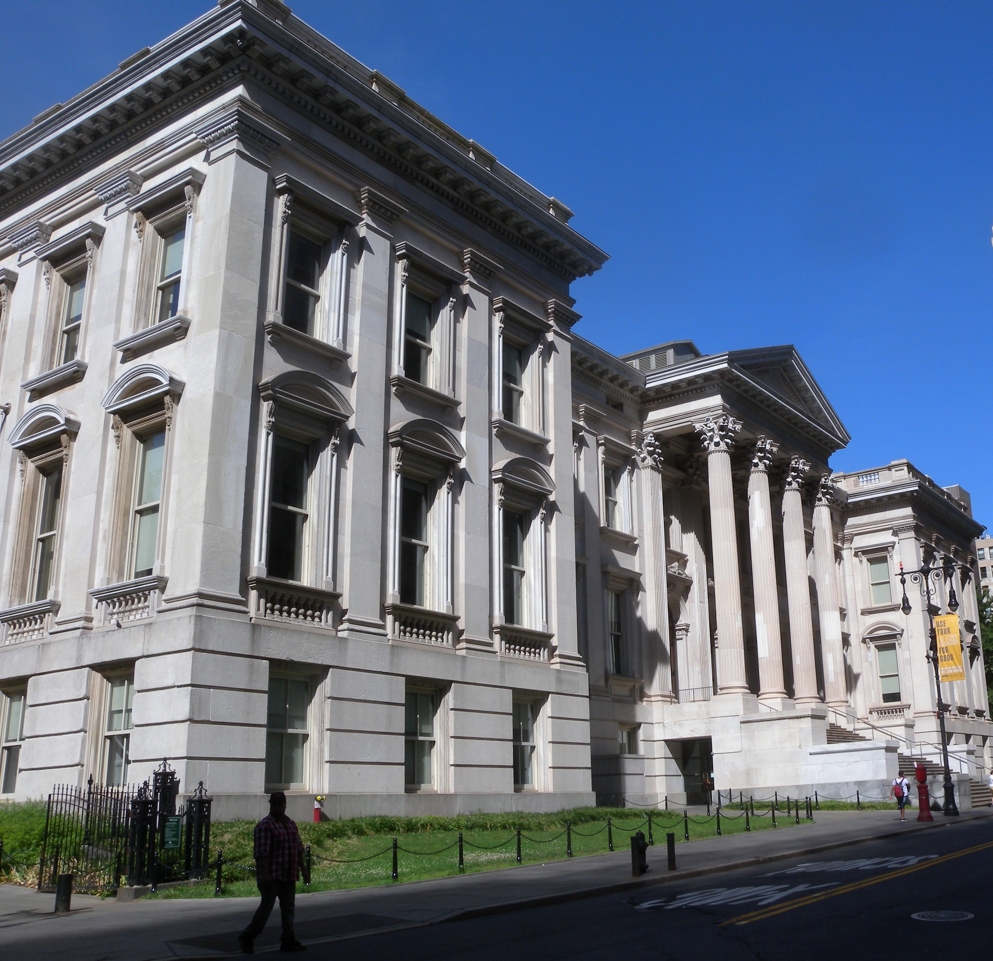 Looking west at north side on a sunny morning.